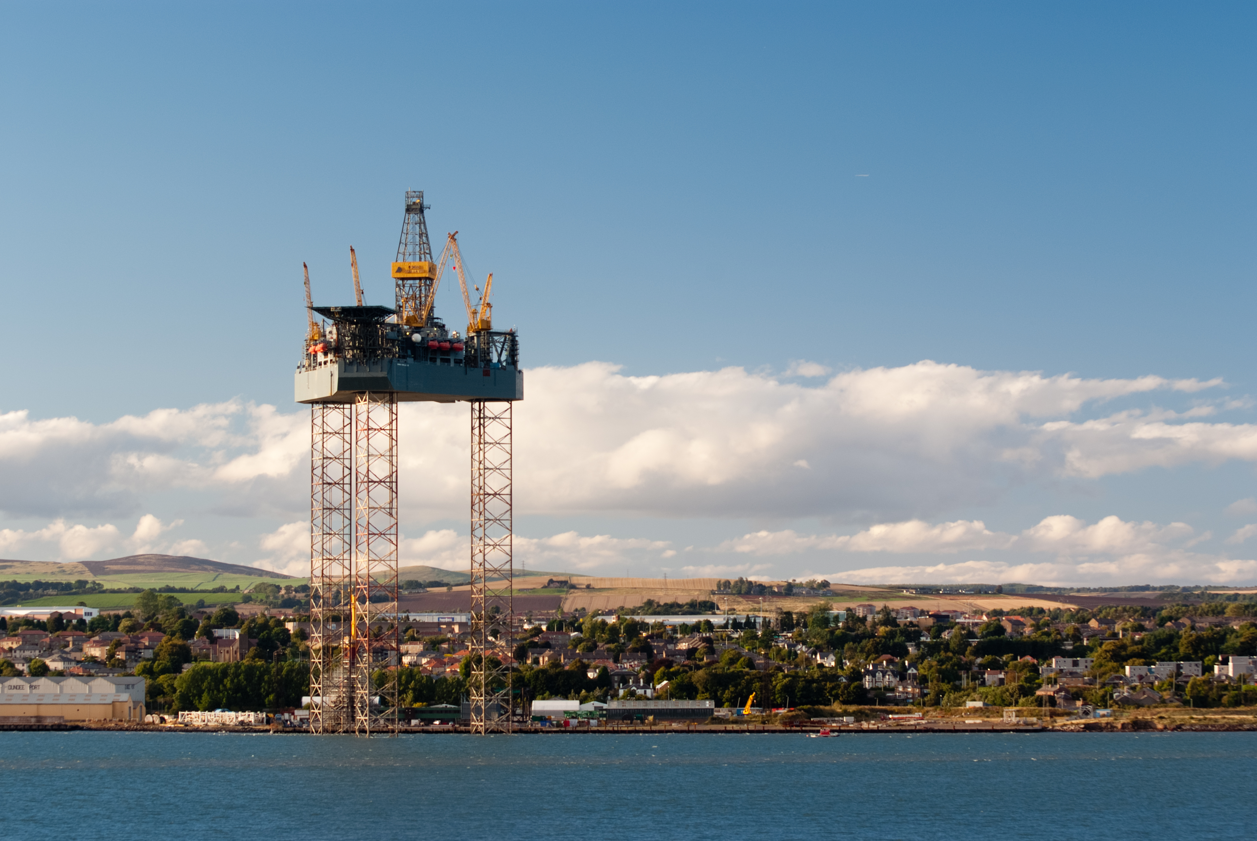 Taken late afternoon/early evening. Different sources state differing heights but I would estimate that the base of the platform is about 300 feet up.